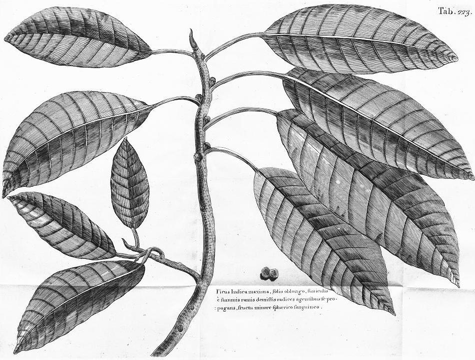 Ficus indica maxima illustration as drawn by Hans Sloane from A voyage to the islands Madera, Barbados, Nieves, S. Christophers and Jamaica published in 1725